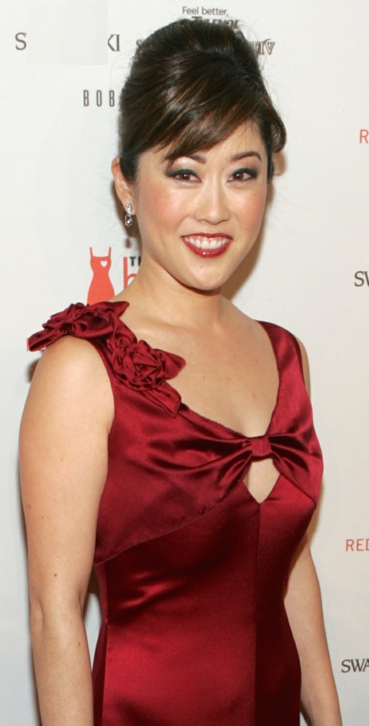 Backstage at The Heart Truth's Red Dress Collection Fashion Show during New York Fashion Week. February 13, 2009 at Bryant Park.